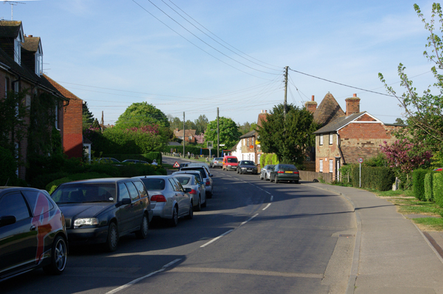 Woodchurch The post office is on the right where the Royal Mail van is parked. Beyond, the village sign looking like an inn sign, and then the green with play area.